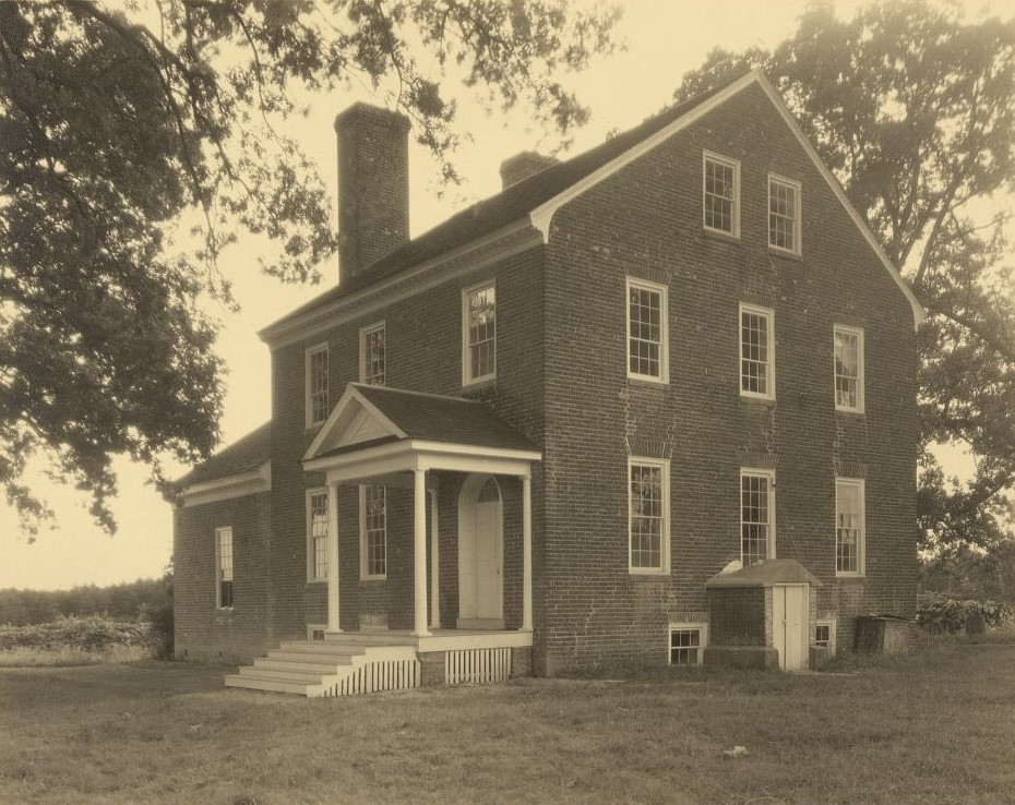 Title Oakley, Caroline County, Virginia Contributor Names Johnston, Frances Benjamin, 1864-1952, photographer Created / Published 1935. Subject Headings - United States--Virginia--Caroline County--. - Gables. - Porches. - Brickwork. - Houses. - Virginia--Caroline County Format Headings Photographic prints. Notes - Title from photographer's inventory. - North bank of N. Anna River. - Original Carnegie Survey of the Architecture of the South neg. no. is either VA-1453 or VA-1455. Library has no record of having either negative. - No corresponding reference print found in LOT 11841-17. - Forms part of: Carnegie Survey of the Architecture of the South (Library of Congress). Medium 1 photographic print. Call Number/Physical Location LOT 12642-10 [item] [P&P] Repository Library of Congress Prints and Photographs Division Washington, D.C. 20540 USA Digital Id csas 04440 //hdl.loc.gov/loc.pnp/csas.04440 Control Number csas200904510 Reproduction Number LC-DIG-csas-04440 (digital file from print) Rights Advisory No known restrictions on publication. Online Format image Description 1 photographic print.